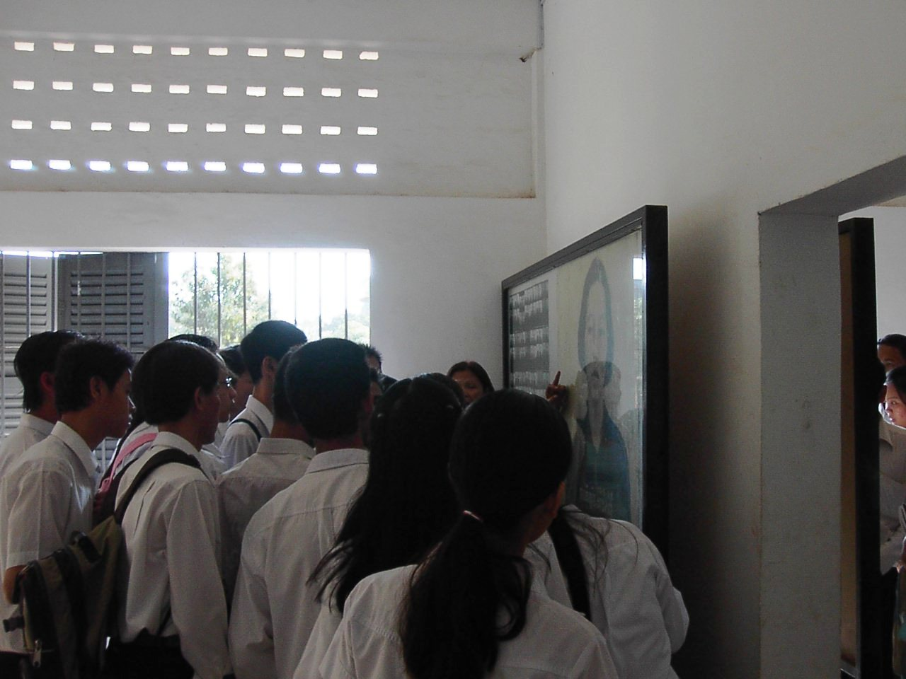 Photographed and uploaded to English Wikipedia by User:Adam Carr